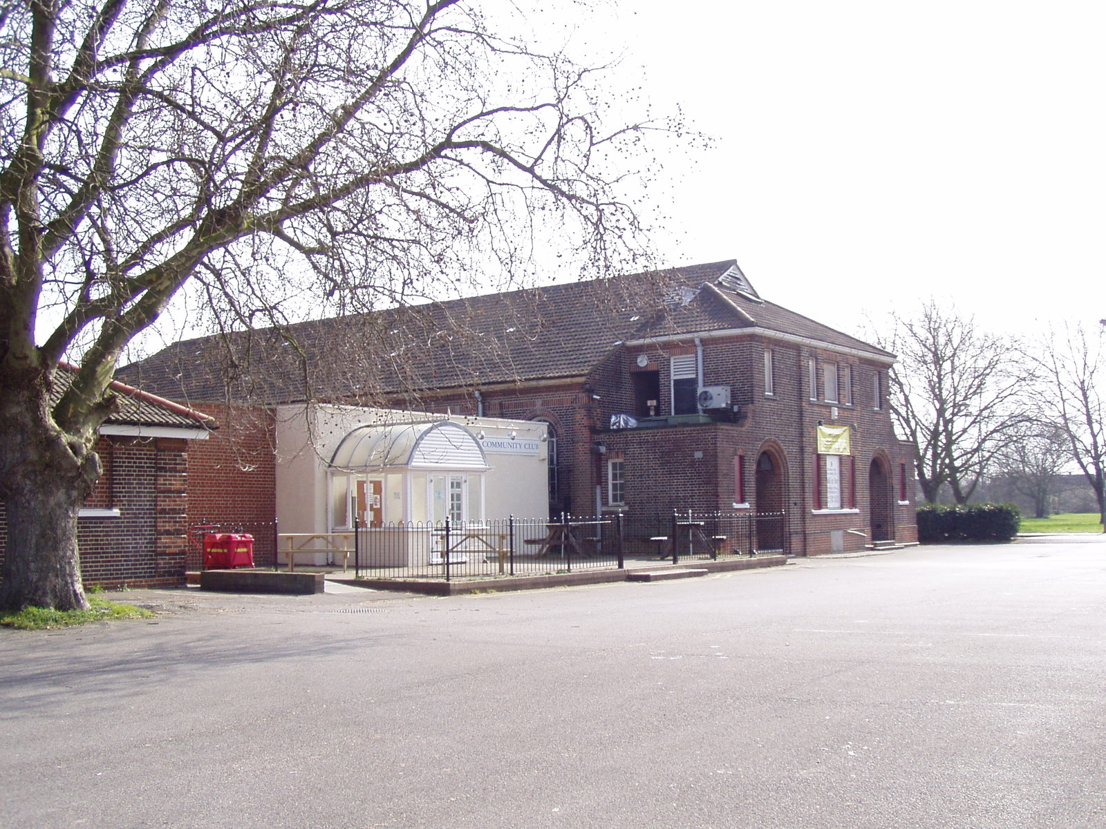 Brandon Groves Community Club South Ockendon